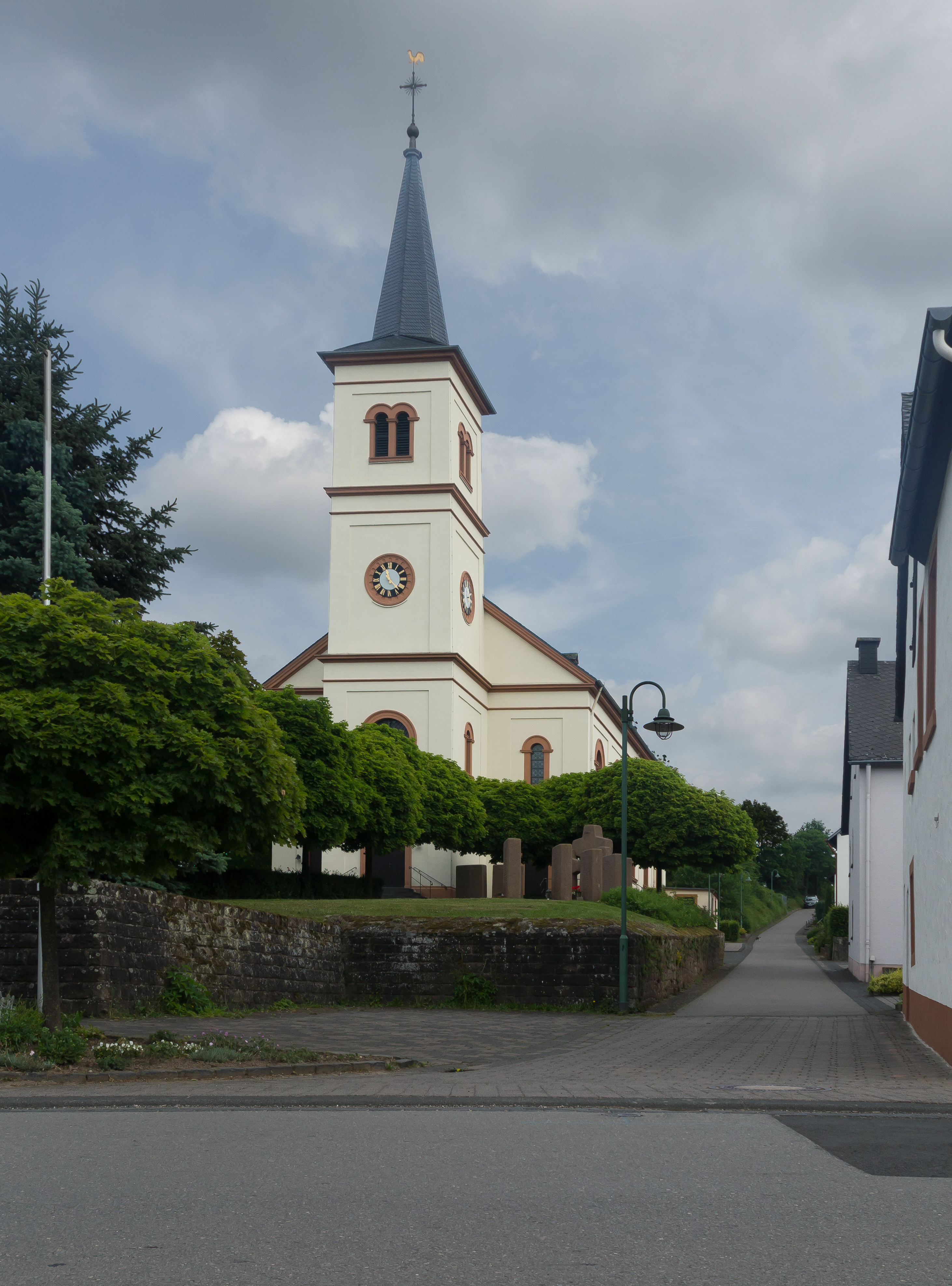 Salmtal, church: die Katholische Pfarrkirche Sankt Martin